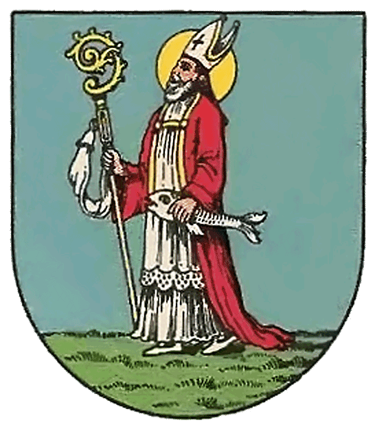 Coat of arms of Sankt Ulrich, Vienna